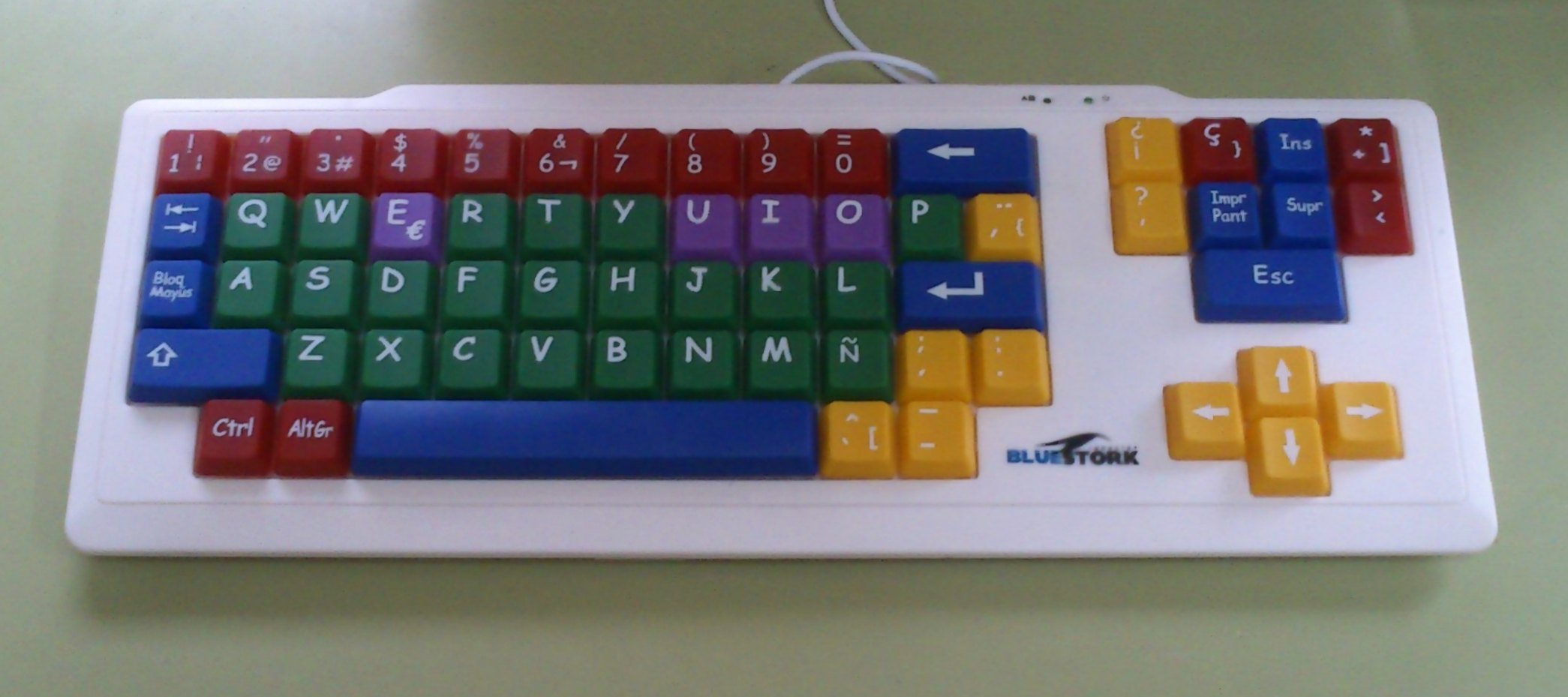 Keyboard for children Bluestork (model BS-KB-KIDS/SP)